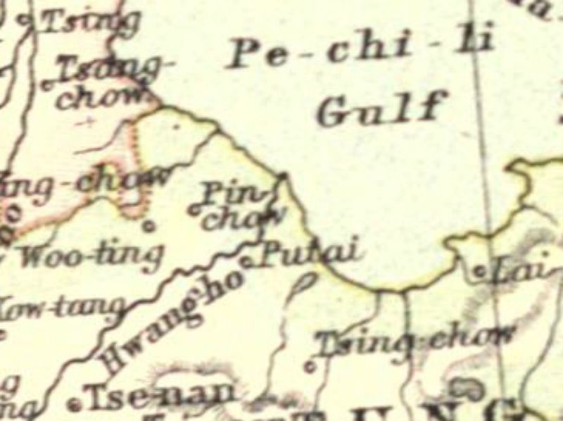 Detail from Plate II: China from Volume V of the Encyclopaedia Britannica, 9th ed., displaying the former city of Putai, seat of the former Putai County, in Shandong (Shan-tung).